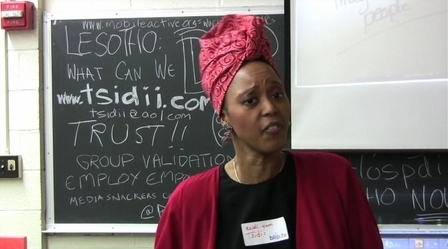 Tsidii Le Loka Lupindo, Tony nominated star of The Lion King On Broadway will launch her T-junction Project - adopting the Kingdom of Lesotho in Southern Africa project - this was one of her song. Amazing. An amazing moment @ podcampnyc2 in brooklyn polytechnic. This is a frame from a video. You can watch it on Vimeo.